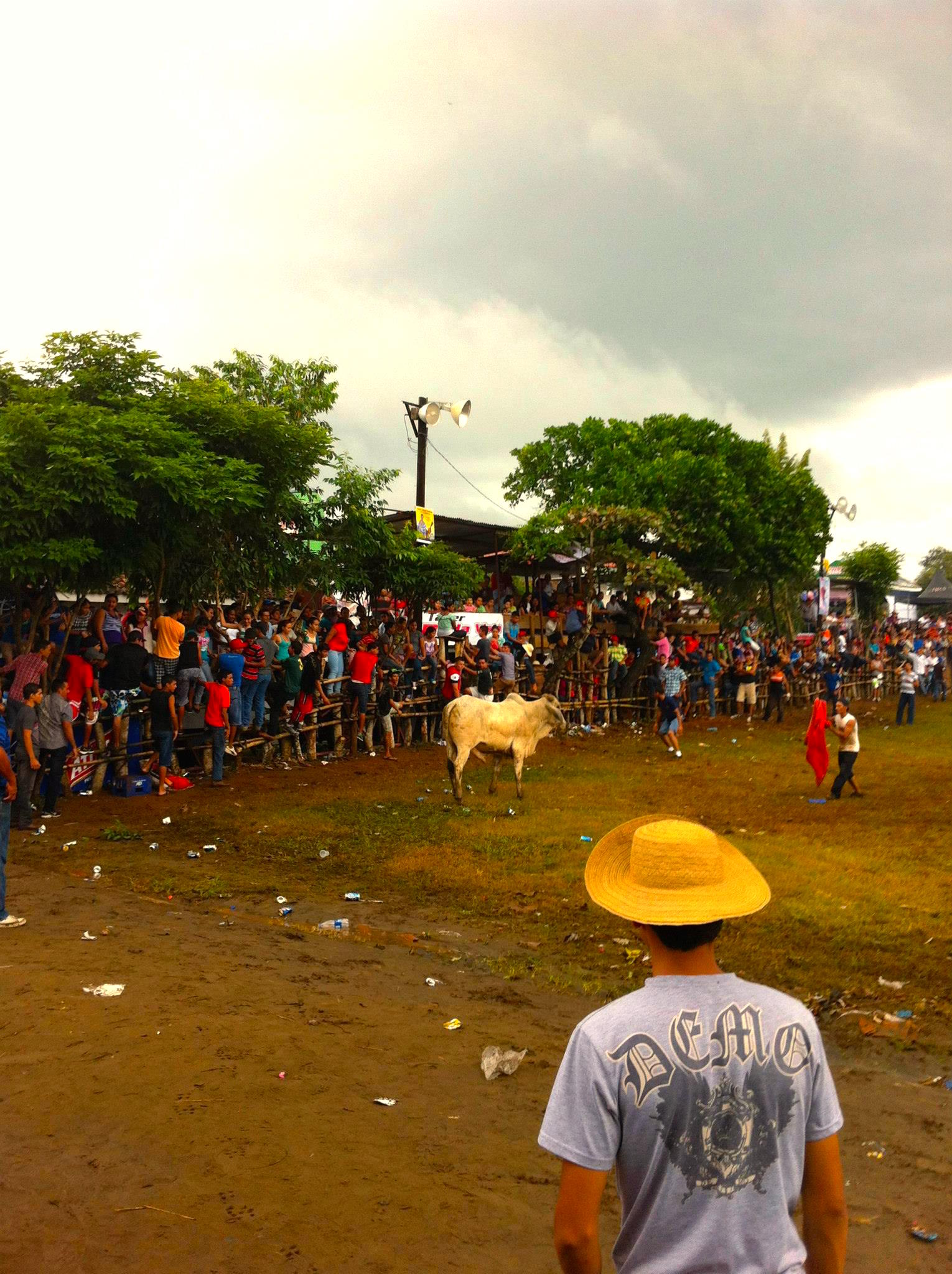 Bullfighting in Guararé.